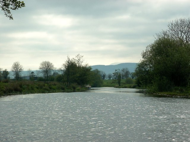 River Arney The river Erne is connecting the Lough McNean Upper to the Lough Erne